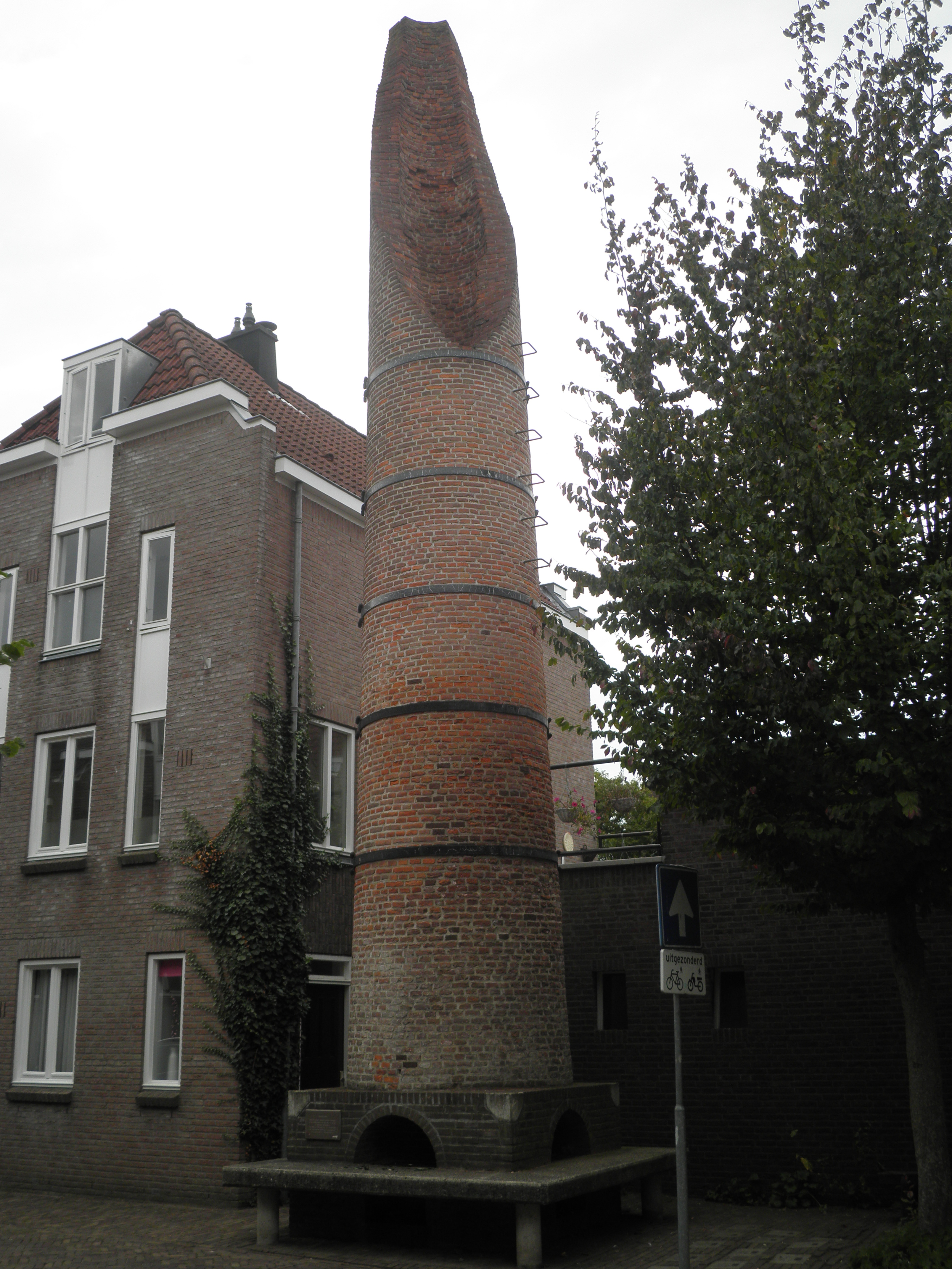 Remainder of the DAIM factory chimney at the Prinsenplaats courtyard in Deventer, the Netherlands